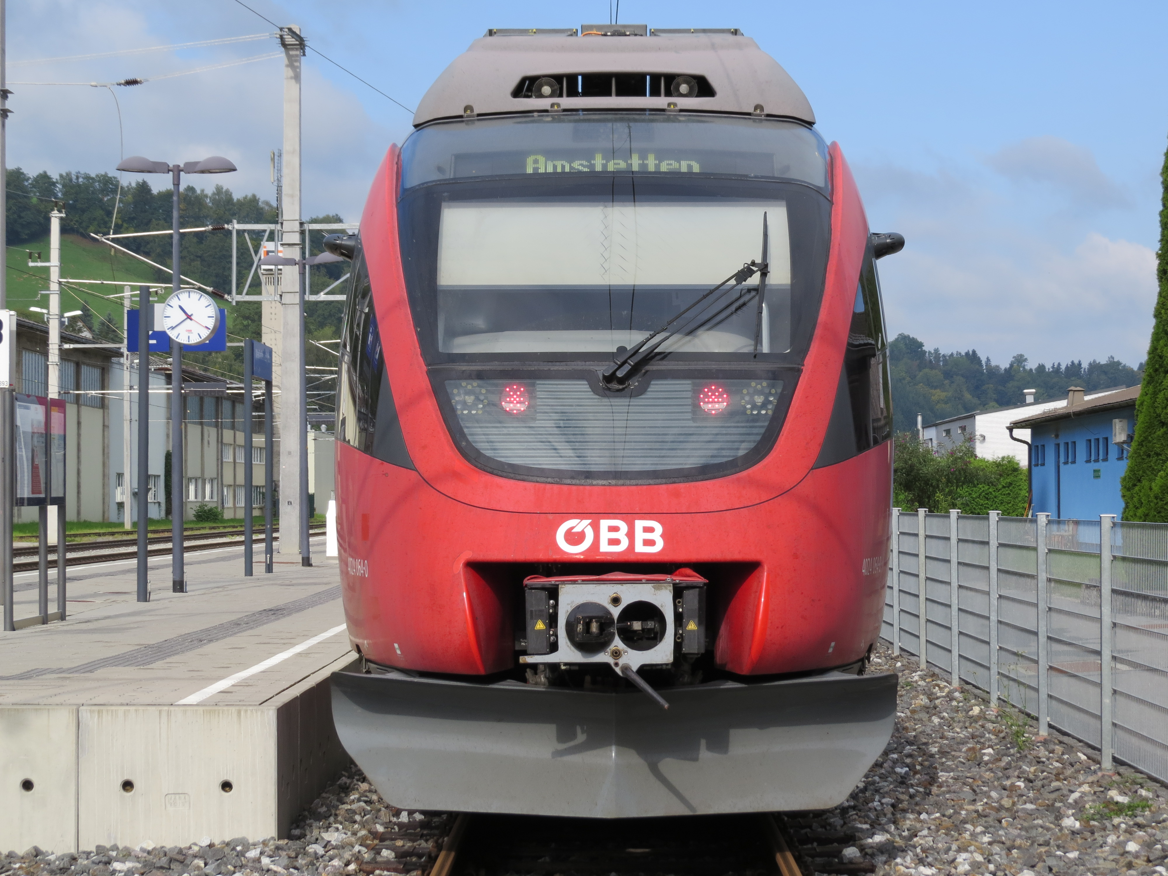 ÖBB 4024 at Bahnhof Waidhofen an der Ybbs